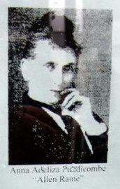 Allen Raine exhibition notice Notice in shop window about the anniversary exhibition relating to Allen Raine, pseudonym of Anna Adeliza Puddlecombe, novelist and native of Newcastle Emlyn, 1836-1908. Her novels, set in Wales, were bestsellers at the turn of the C19.